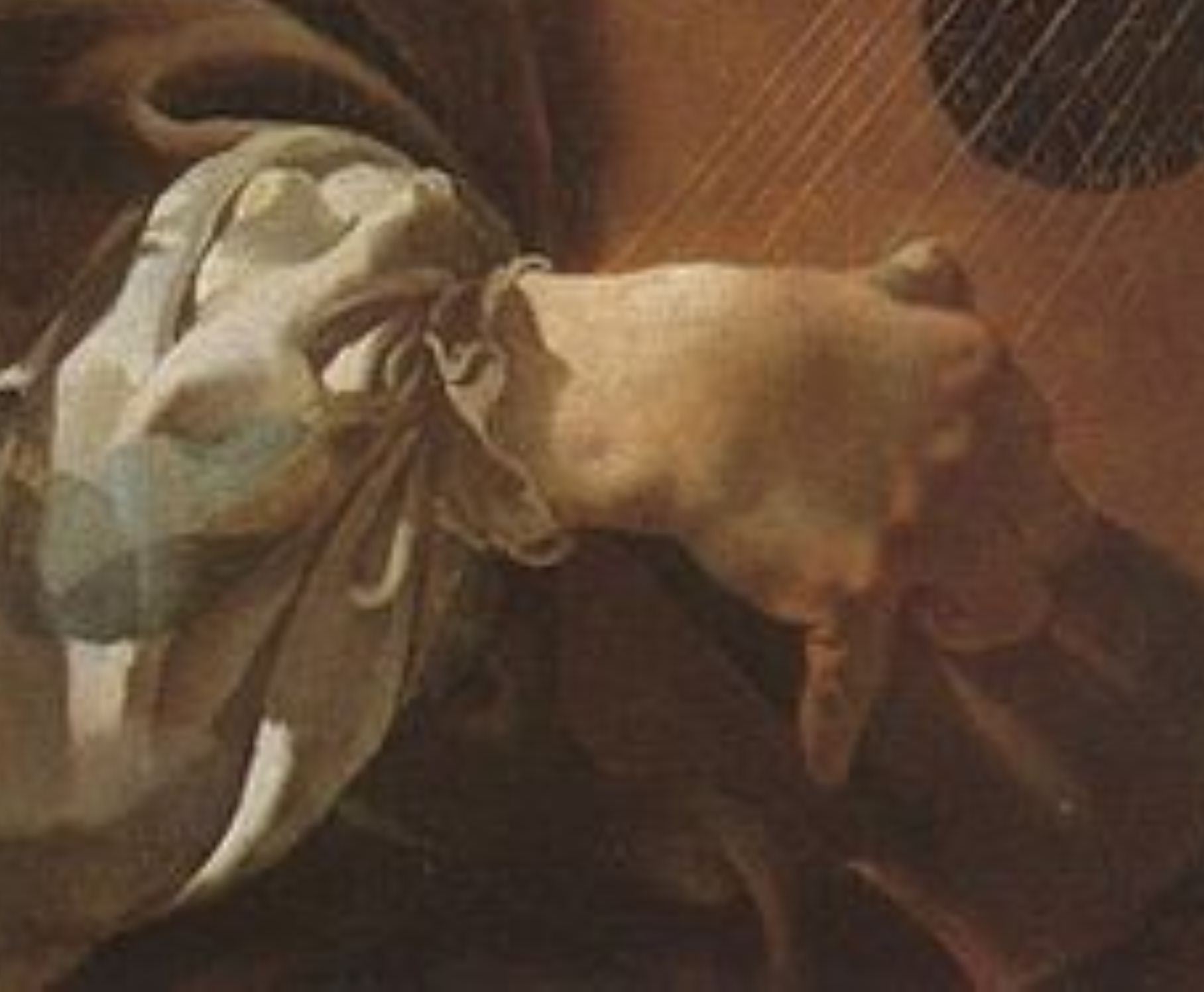 lute player detail of arm and sleeve